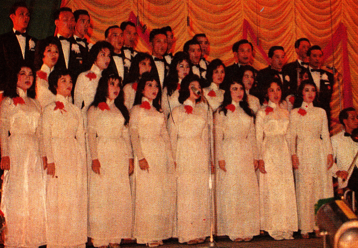 Hoang Thi Tho's choir performing a piece for his program